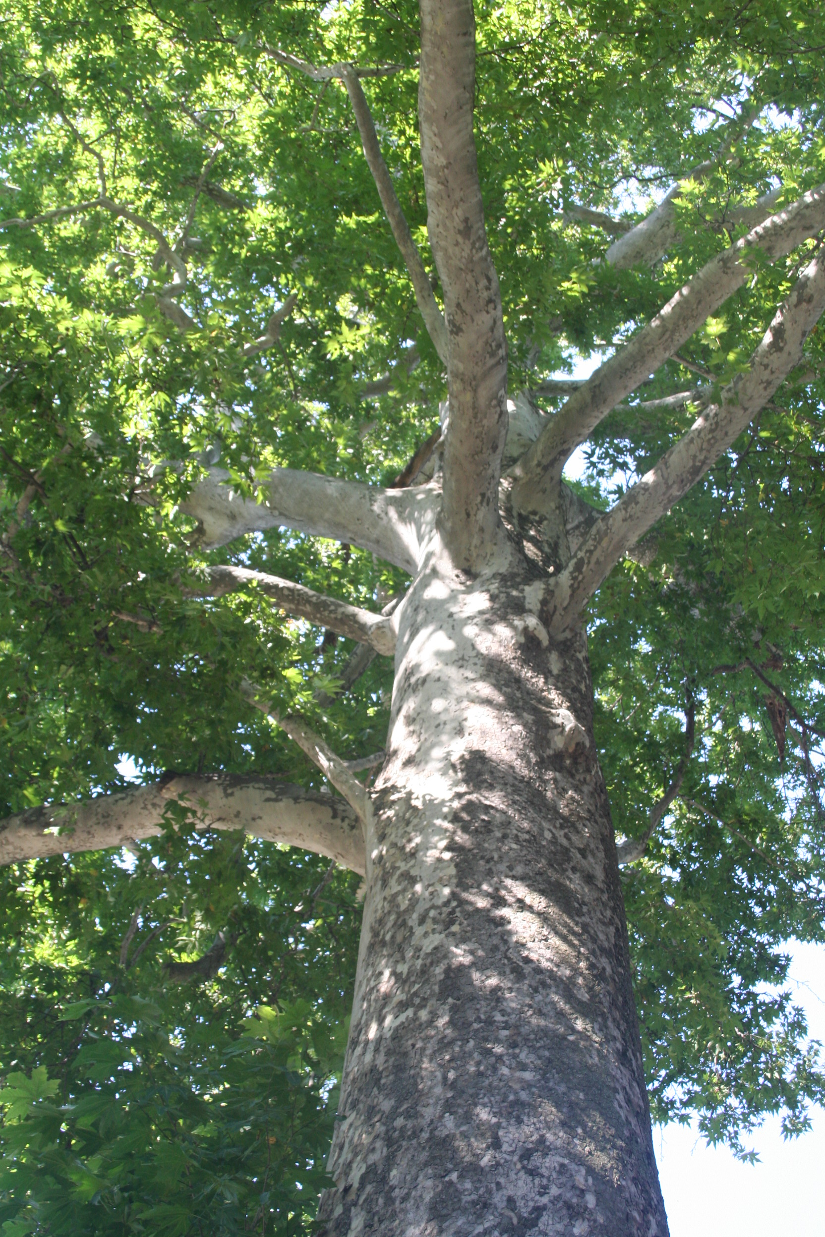 Khan's Platanus in Shaki